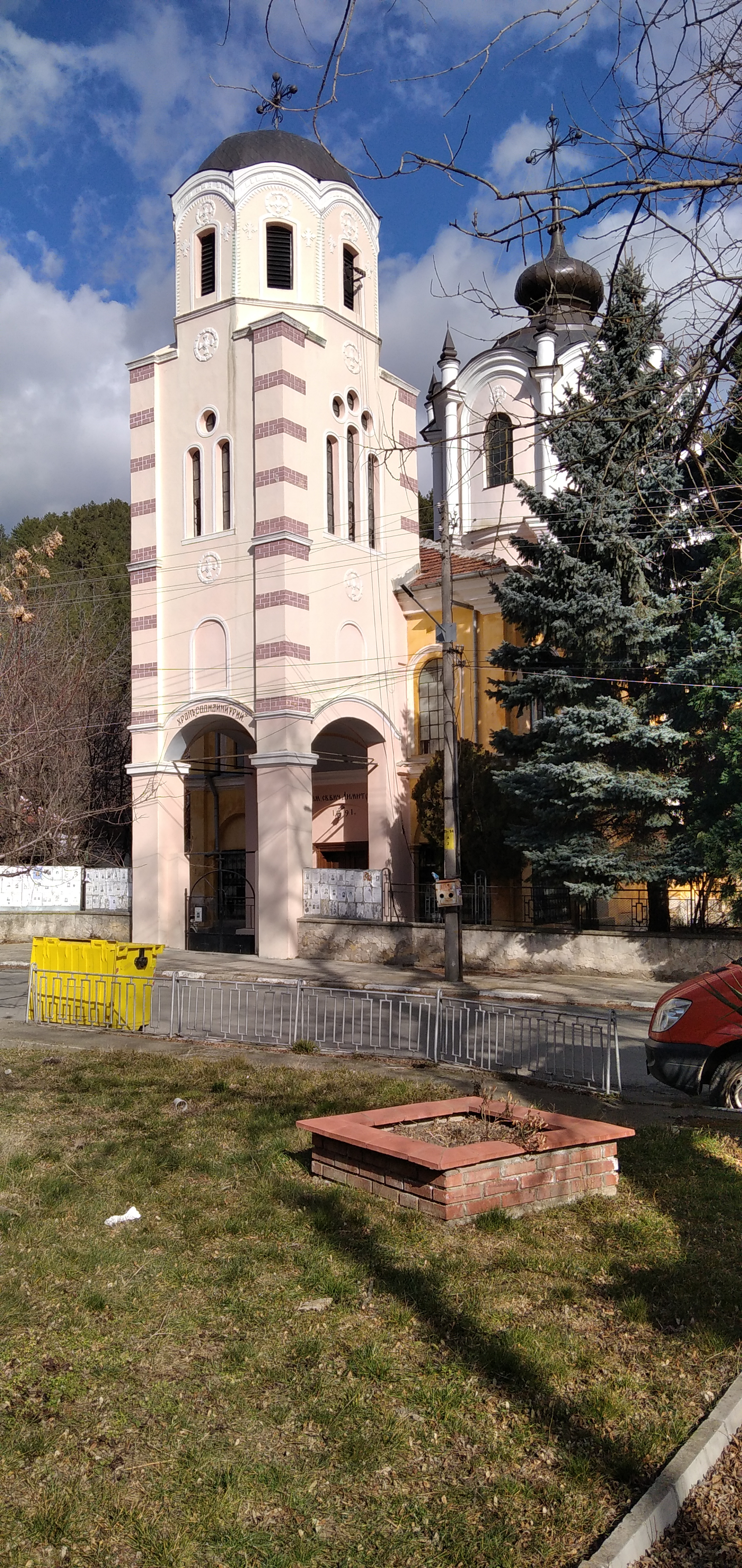 St. Demetrius Church in Maglizh, Bulgaria, from 30 January 2020.